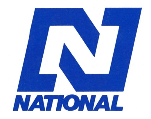 National Party logo